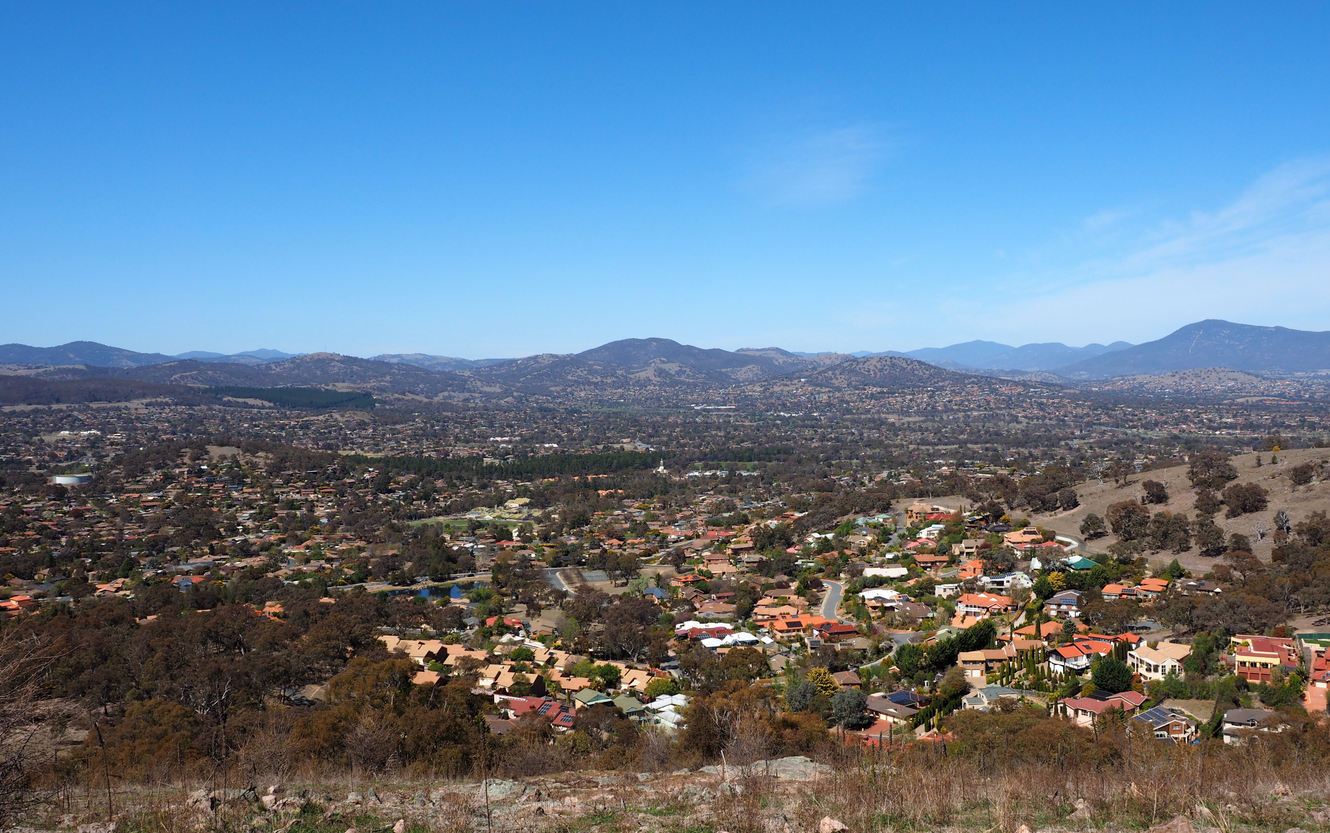 Tuggeranong viewed from the Wanniassa Hills Nature Reserve